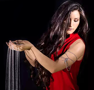 Simona Gandòla, Sand Artist